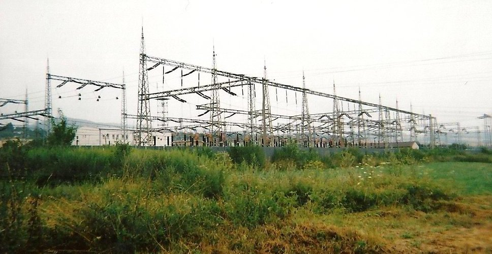 Lemešany substation (400/220/110 kV), Slovakia